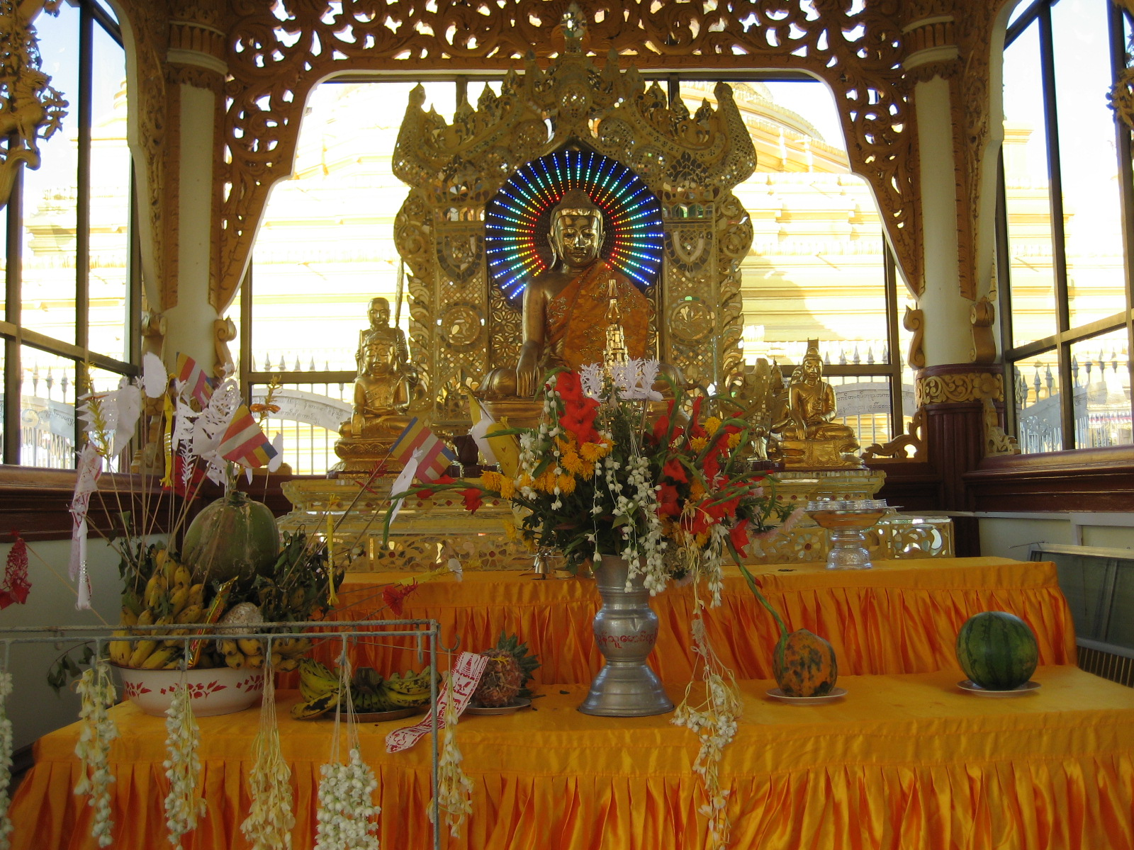 The main shrine at the end of the southern saungdan (covered approach), Kuthodaw Pagoda, Mandalay, Myanmar. The Buddha is surrounded by smaller images including the monks Shin Thiwali (standing figure holding a palm leaf fan behind the small Buddha on the left) and Shin Thariputtra (very small kneeling figure on the right with back to camera and next to the right knee of the small Buddha). Traditional offerings include pan (flowers), yeigyan (cool water), si-mee (oil lamps), and ngapyaw pwè oun pwè (bananas and coconut). Shown here are jasmine and champac chains, hti (miniature umbrellas), dagun koukka (paper pennants and streamers), four-coloured sasana flags, and water in small silver bowls on a tall silver tray (second tier right). Green bananas in bunches and a green coconut with its stalk intact are normally required.